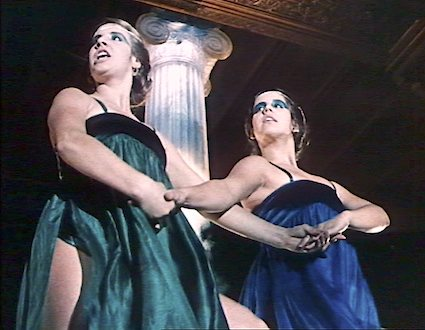 “Narcissus and Echo” is performed by a Viennese variete